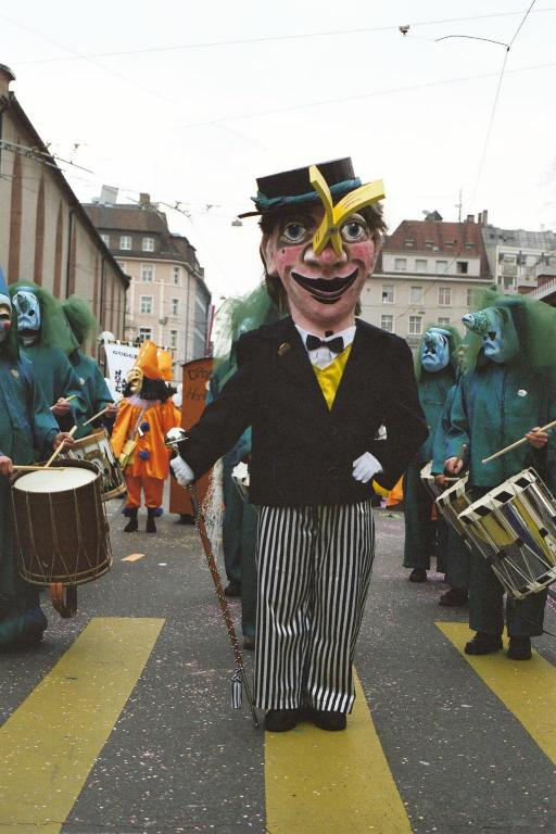 typical drum-master at the basel fasnacht